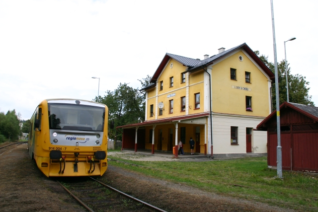 Bahnhof Luby u Chebu